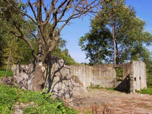 Synagogue in Lutowiska